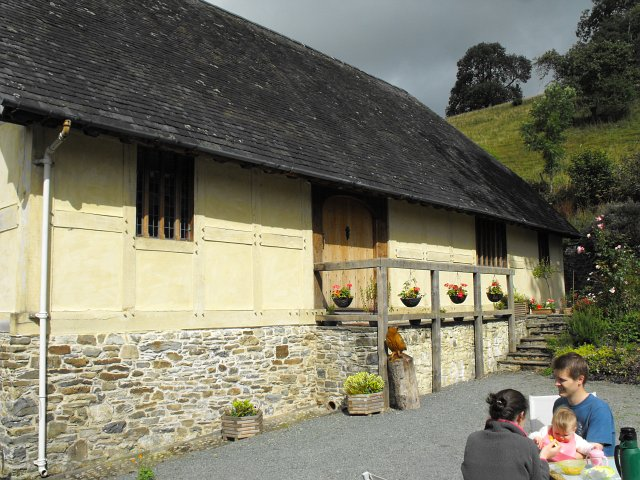 Tŷ Mawr, Castle Caereinion The eastern entrance door.